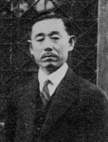 Yūji Shibata.